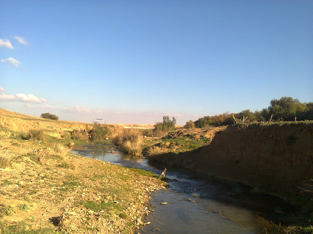 Oued Charef